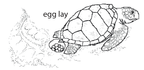 Standard Event System character depiction